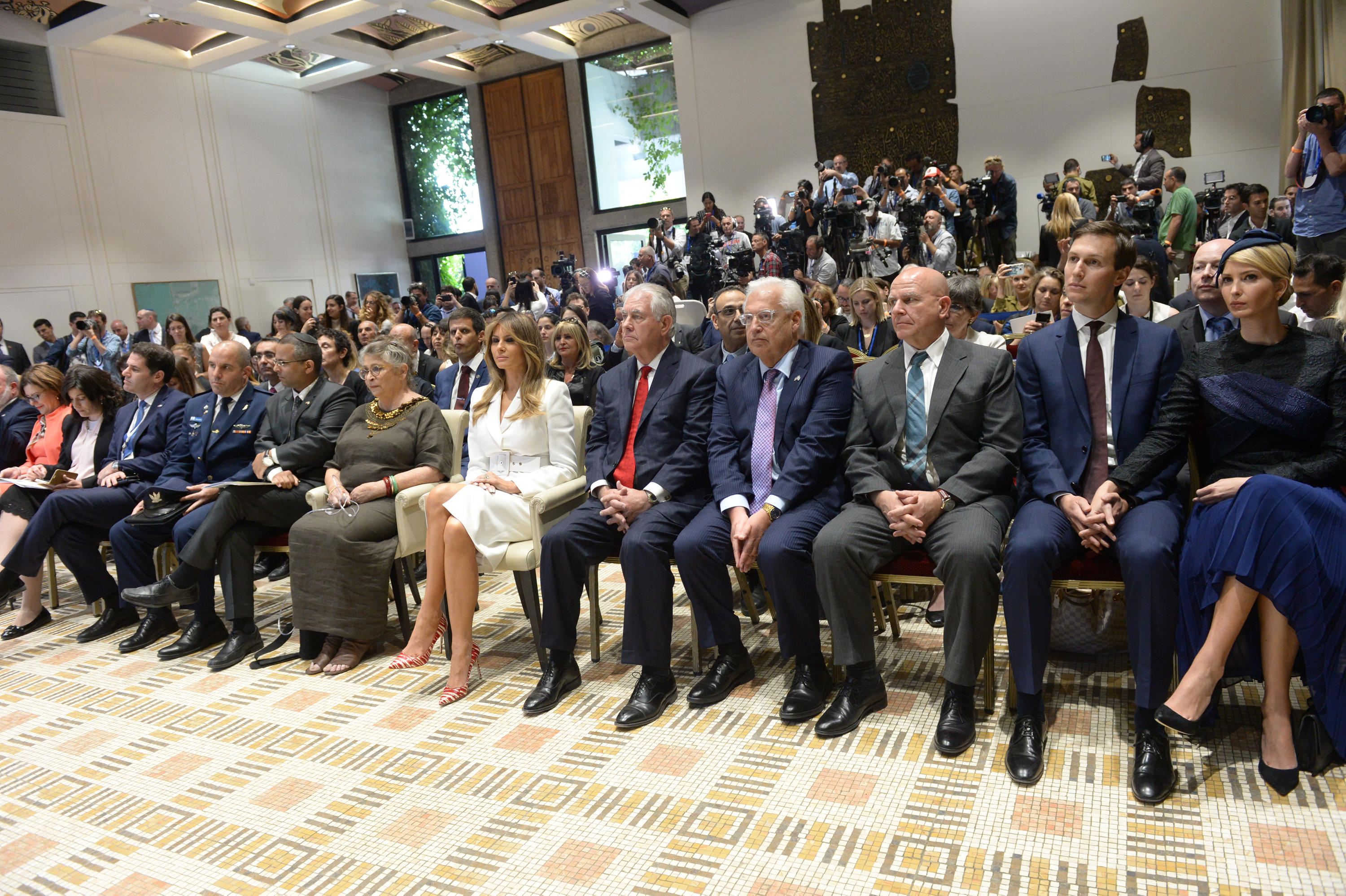 The President of the United States' visit to Israel. Right to Left: Ivanka Trump, Jared Kushner, H. R. McMaster, David Friedman, Rex Tillerson, Melania Trump, Nechama Rivlin,... in Mishkan HaNassi, the official residence of the President of Israel in Jerusalem.